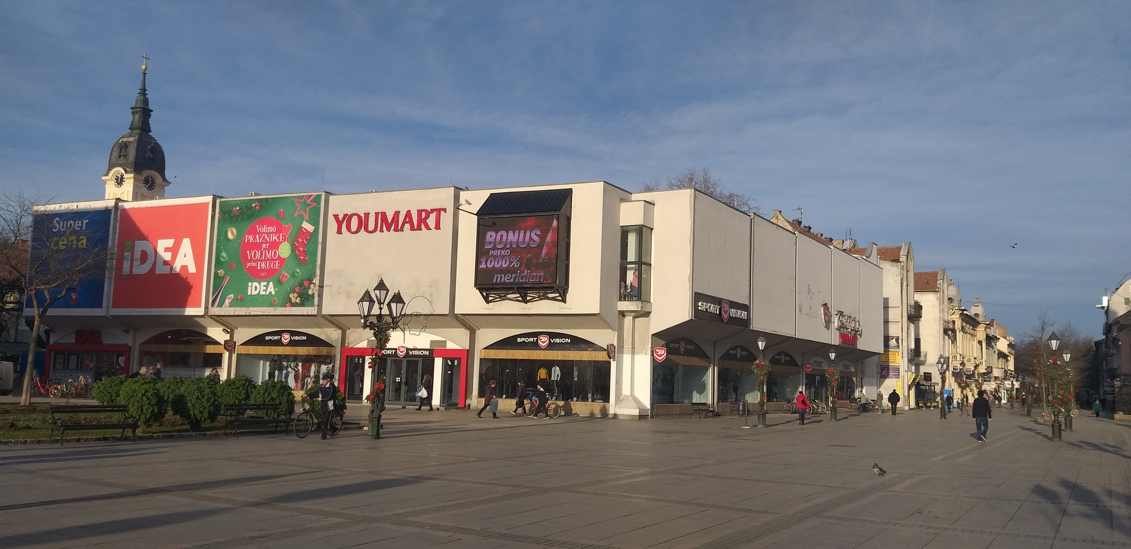 Robna kuća Beograd So